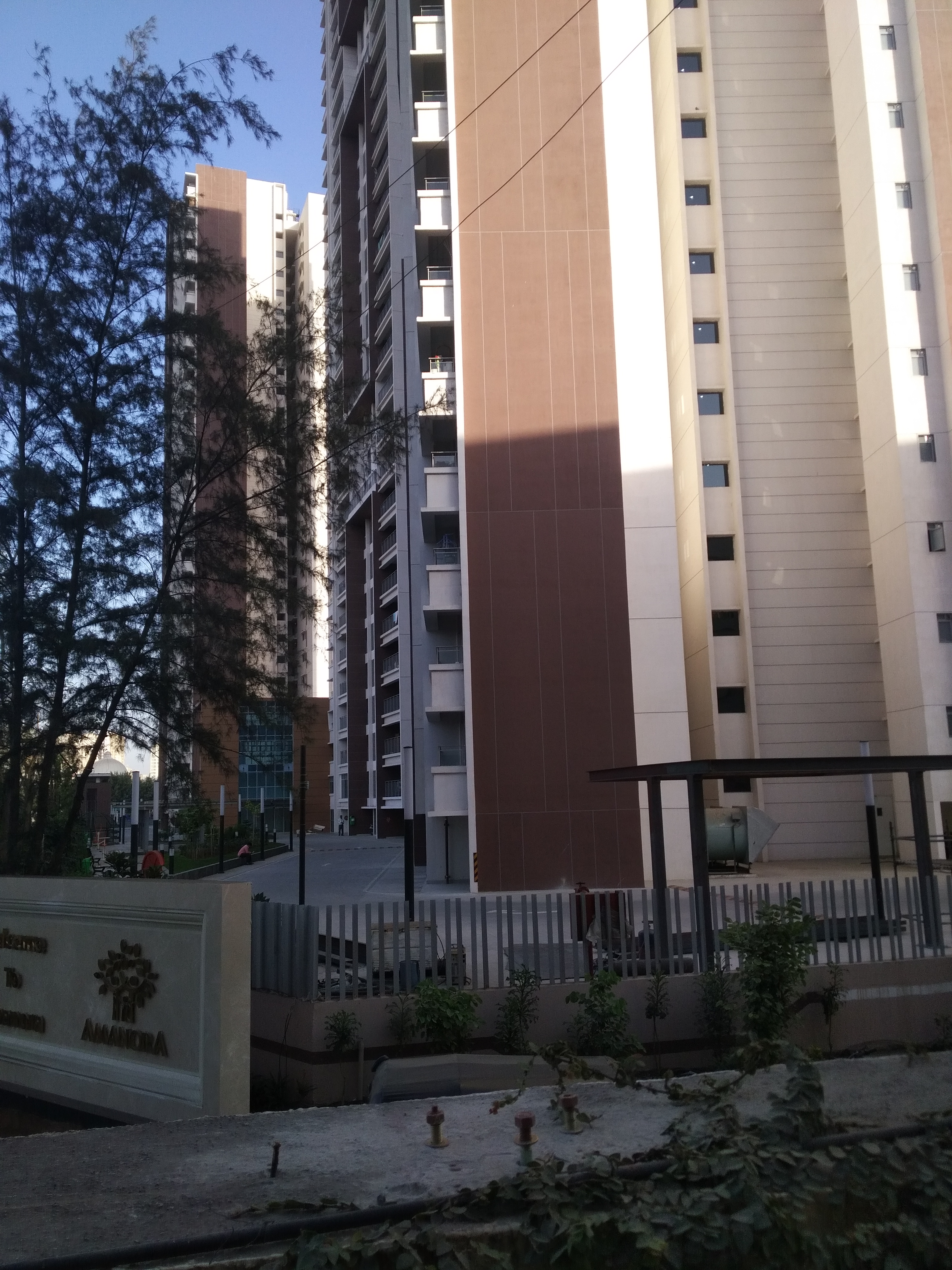 Side View of the Amanora Gold Tower in Hadapsar, Pune